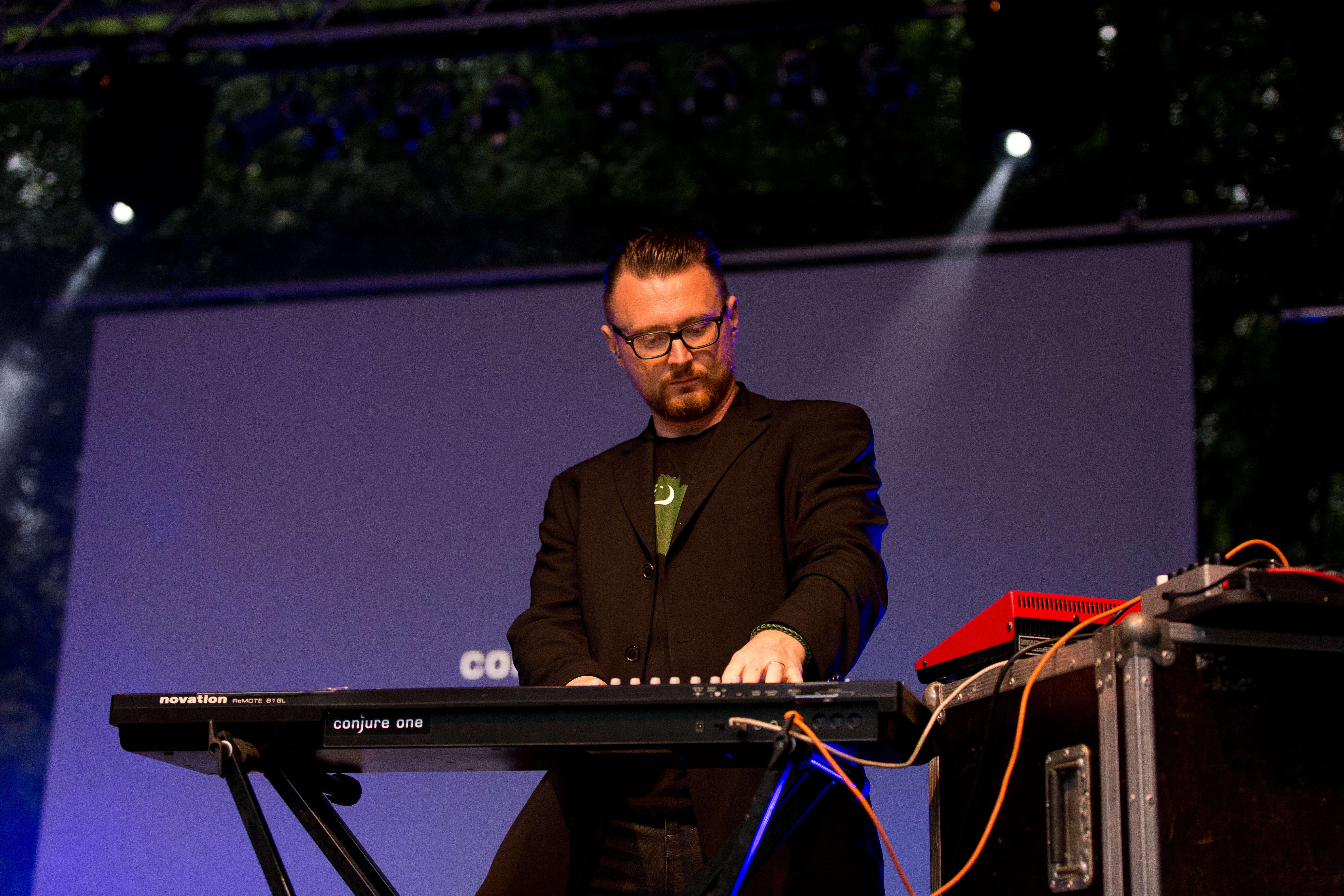 The Canadian ambient band Conjure one at the Nocturnal Culture Night 10 2015 in Deutzen/Germany.